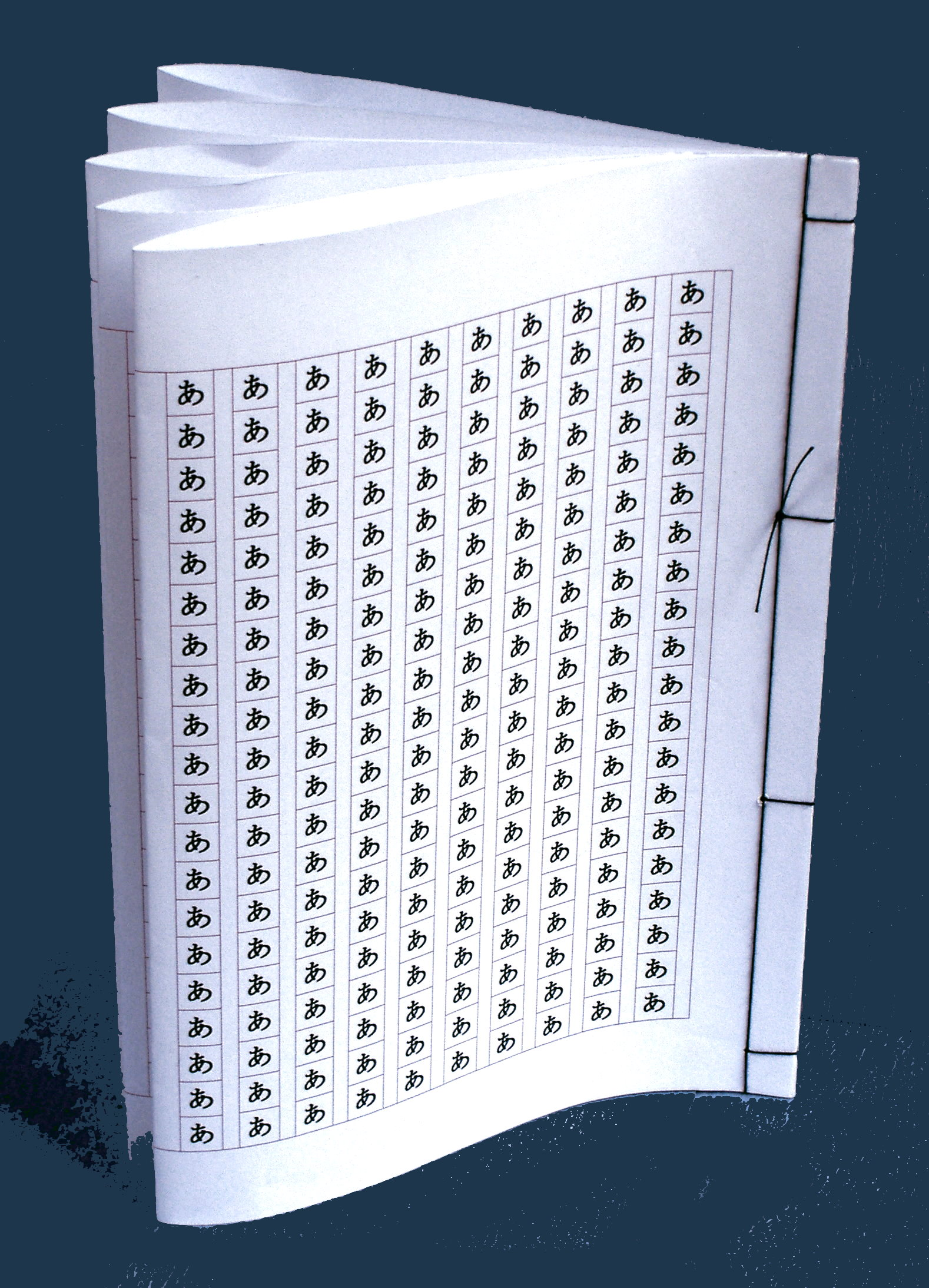 Fukurotoji (Say "Bag-Binding") is an Asian bookbinding method in past times.